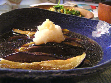 fried eggplant in soy sauce